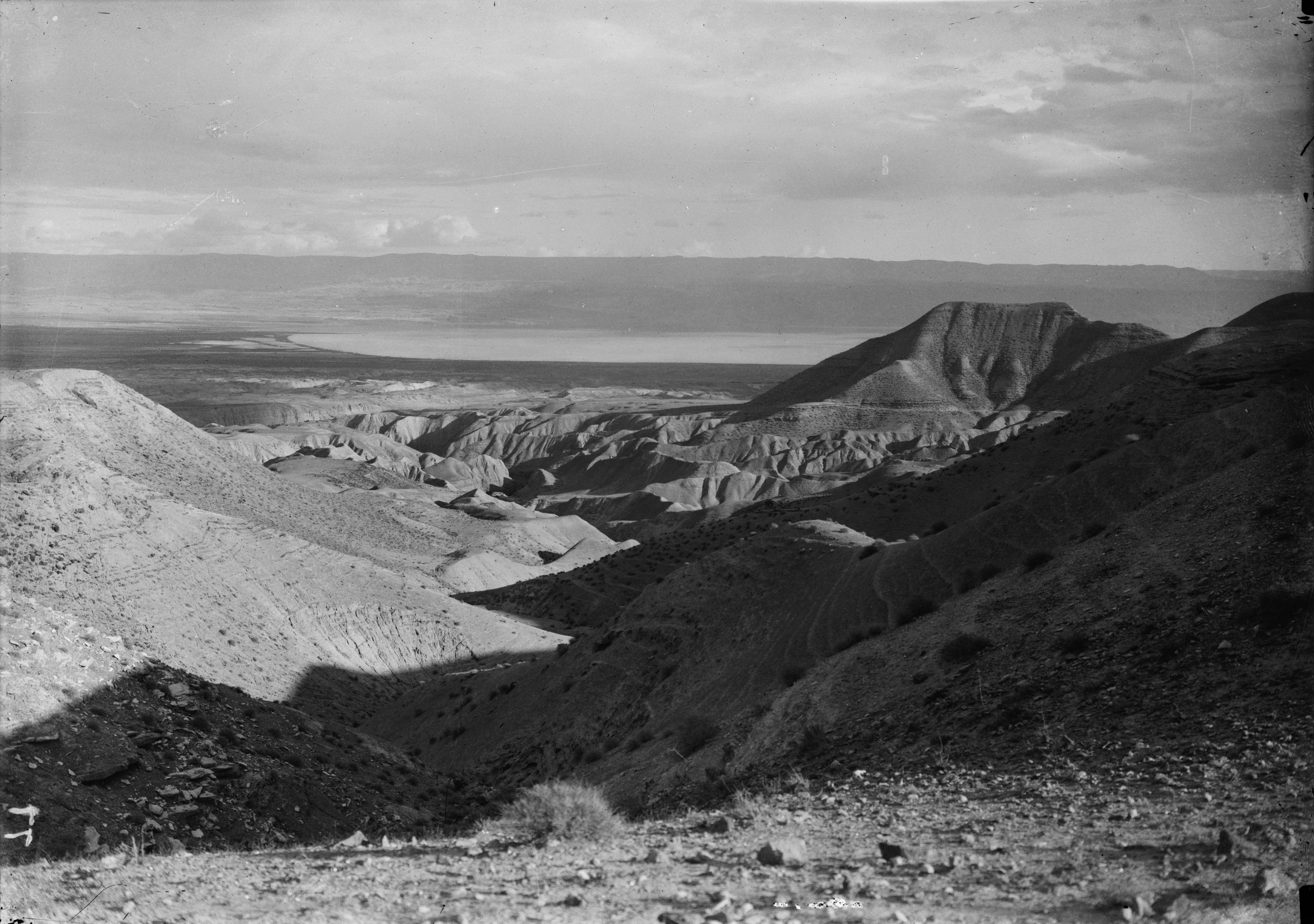 Title: Dead Sea and wilderness of Judea. (Moab mountains in the background) Abstract/medium: G. Eric and Edith Matson Photograph Collection Physical description: 1 negative